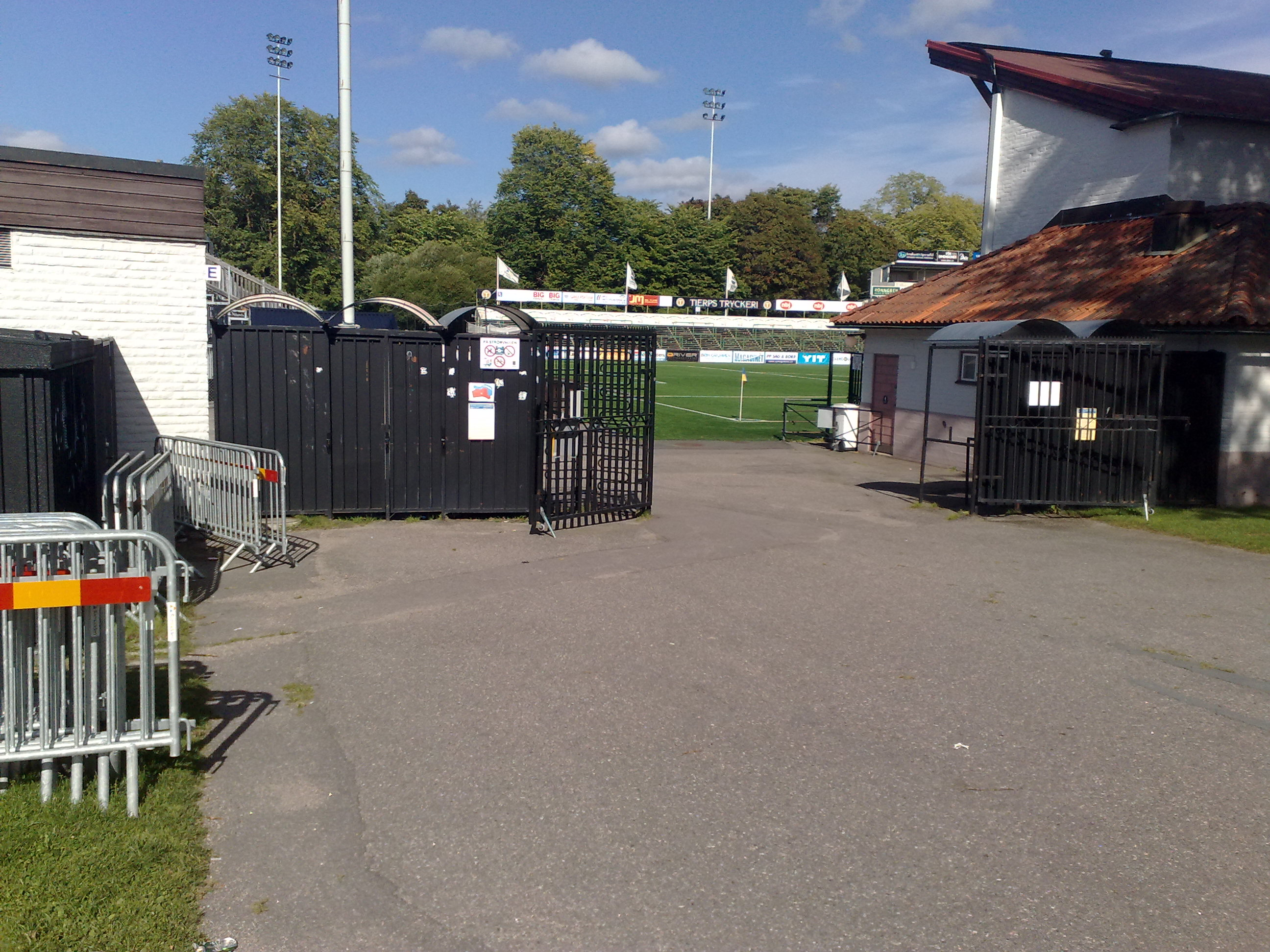 Strömvallen football stadium in Gävle, Sweden.